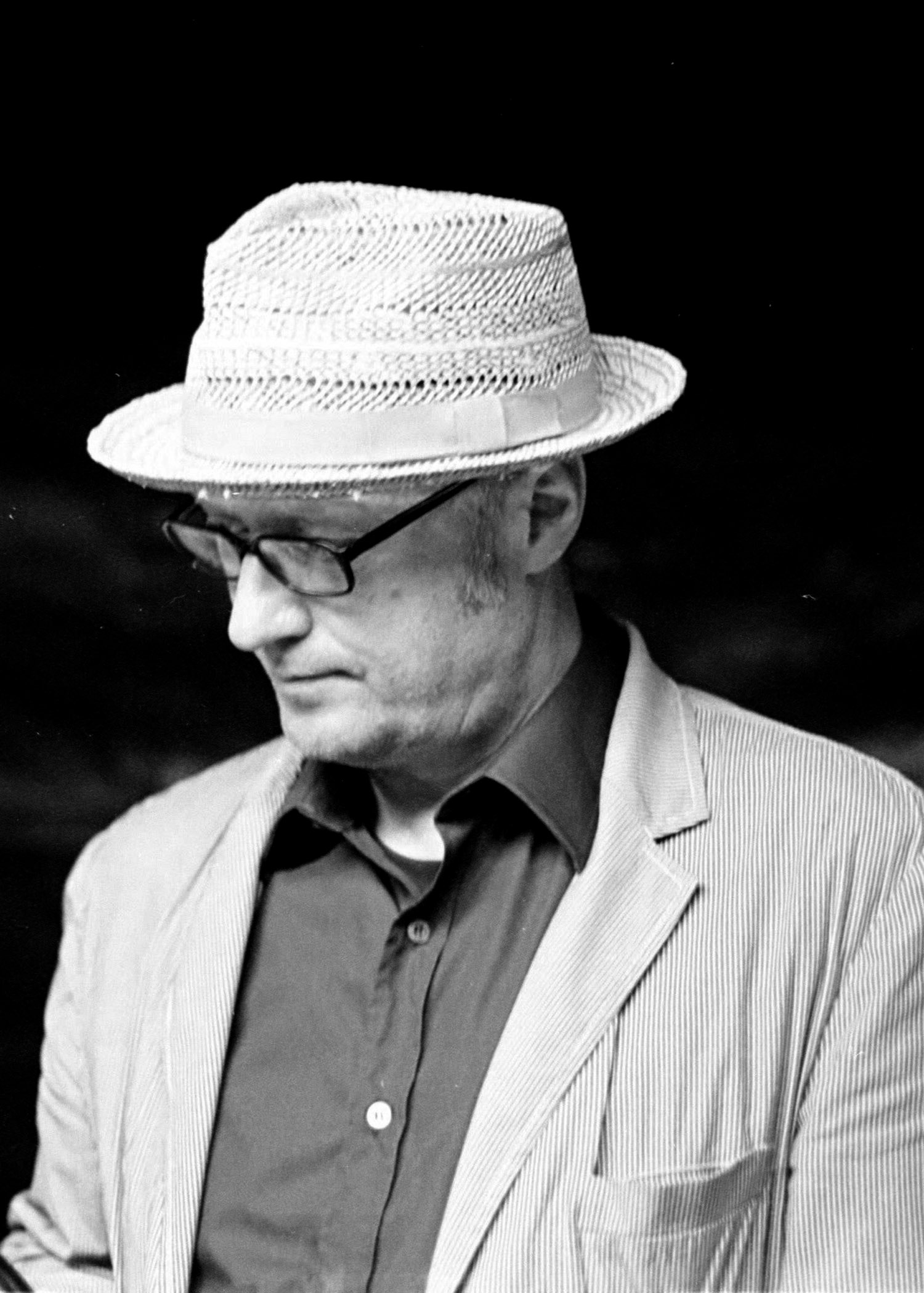 English musician Adrian Edmondson (of the Bad Shepherds) during their set at the 2010 Hebridean Celtic Festival.